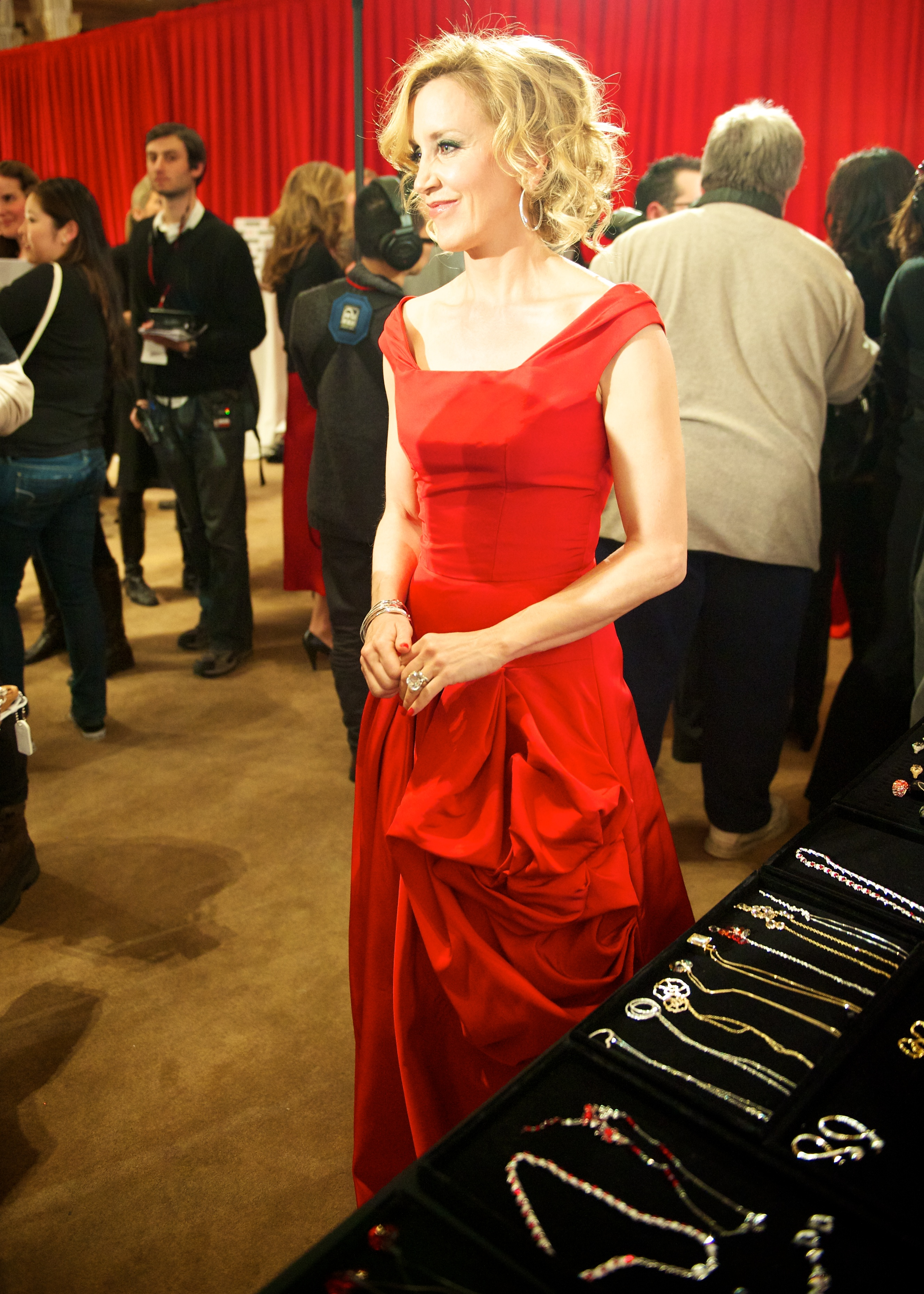 The Heart Truth® is a national awareness campaign for women about heart disease sponsored by the National Heart, Lung, and Blood Institute (NHLBI), part of the National Institutes of Health, U.S. Department of Health and Human Services (HHS). The Red Dress®, introduced by the NHLBI in 2002, is the national symbol for women and heart disease awareness. Visit for information on women and heart disease. Photographer: Tim Lundin ~ ~ Photographer: Tim Lundin ~ ~ ®, TM The Heart Truth, its logo and The Red Dress are trademarks of HHS. Participation by Mercedes-Benz Fashion Week, Diet Coke, Swarovski, Tylenol, St. Joseph's Aspirin, Bobbi Brown, and Brian Atwood does not imply endorsement by HHS.